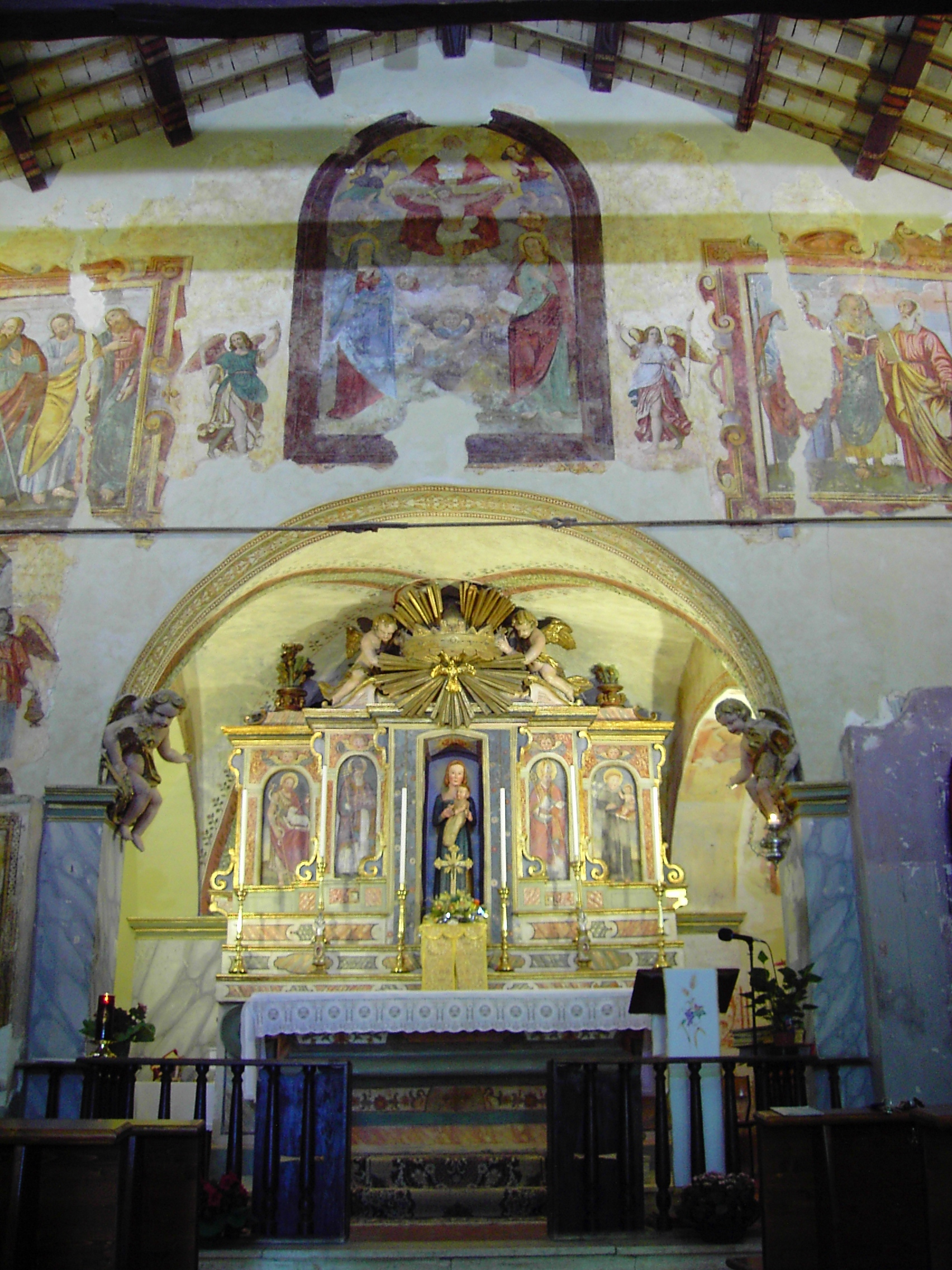 Church of Santa Maria in Herulis - Ripattoni (TE), Italy